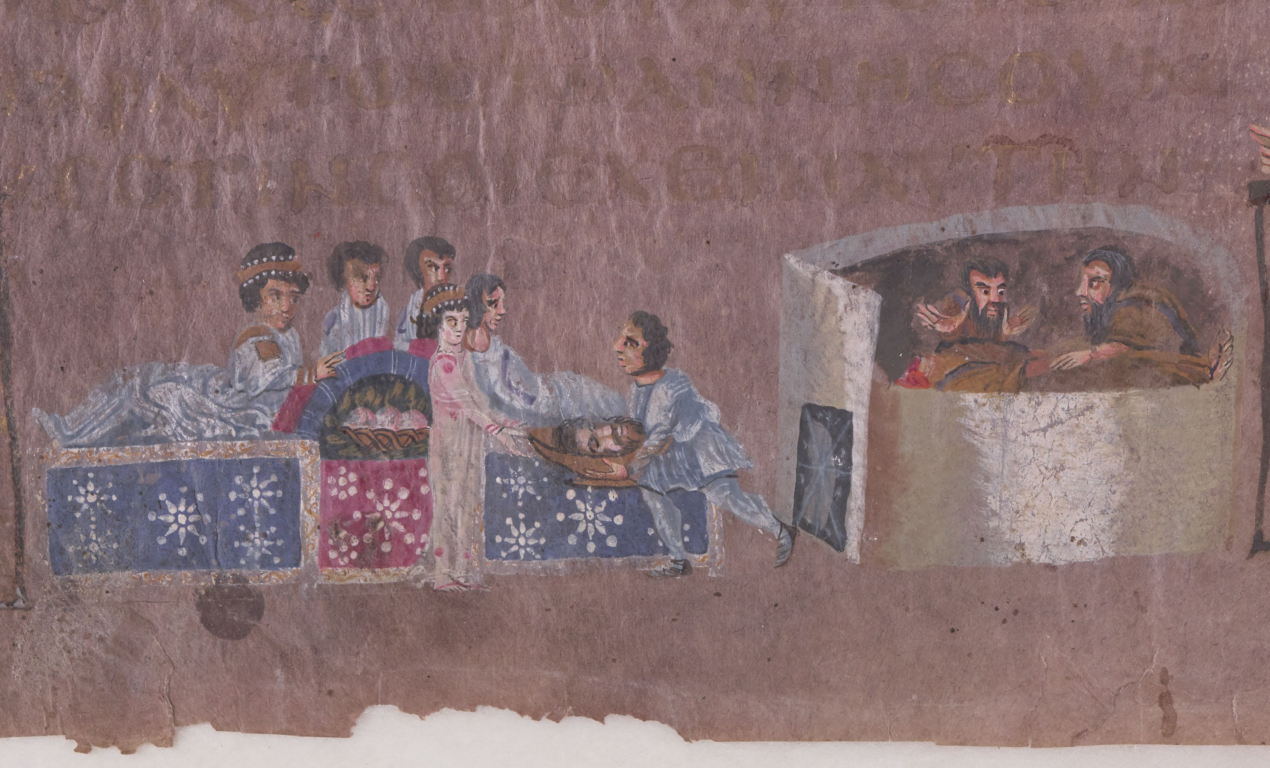 Sinopensis f10v